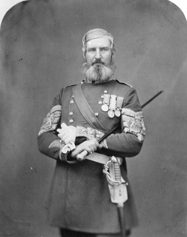 Crimean War 1854-56 Sergeant Major Edwards, Scots Fusilier Guards.